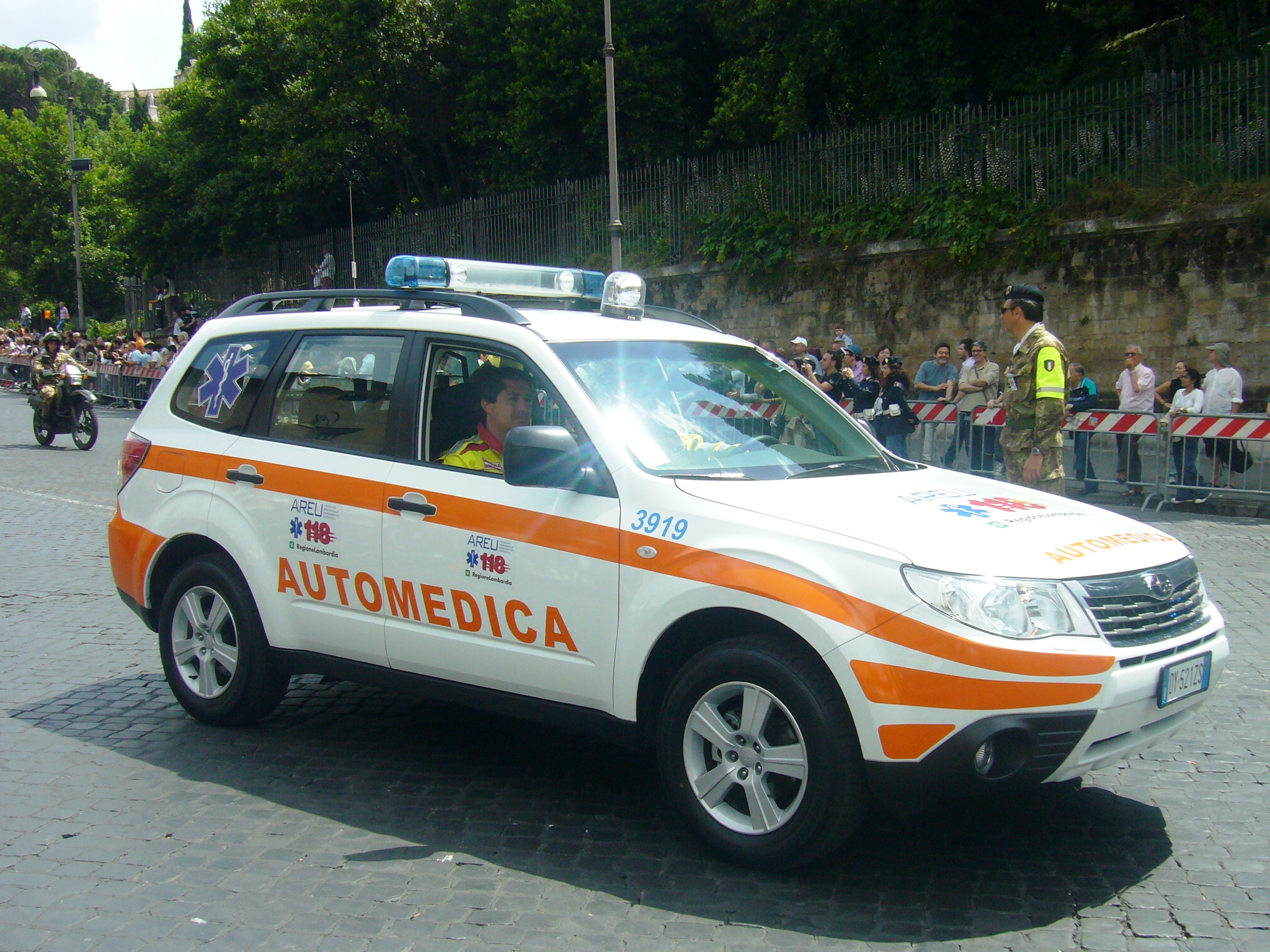 Subaru Forester fly-car (physician-car) of the Italian EMS (Lombardia) on parade in Rome for the 2010 Republic Day.